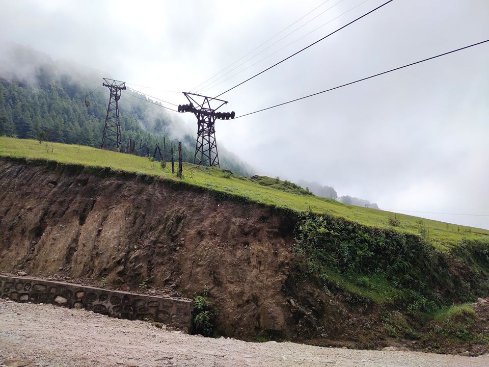 ropeway